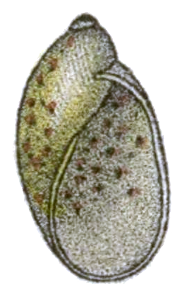 Drawing of apertural view of the shell of Amphibulima browni.